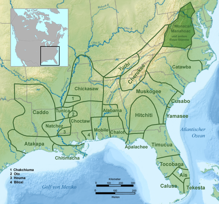 Tribal territory of Monacan during seventeenth century